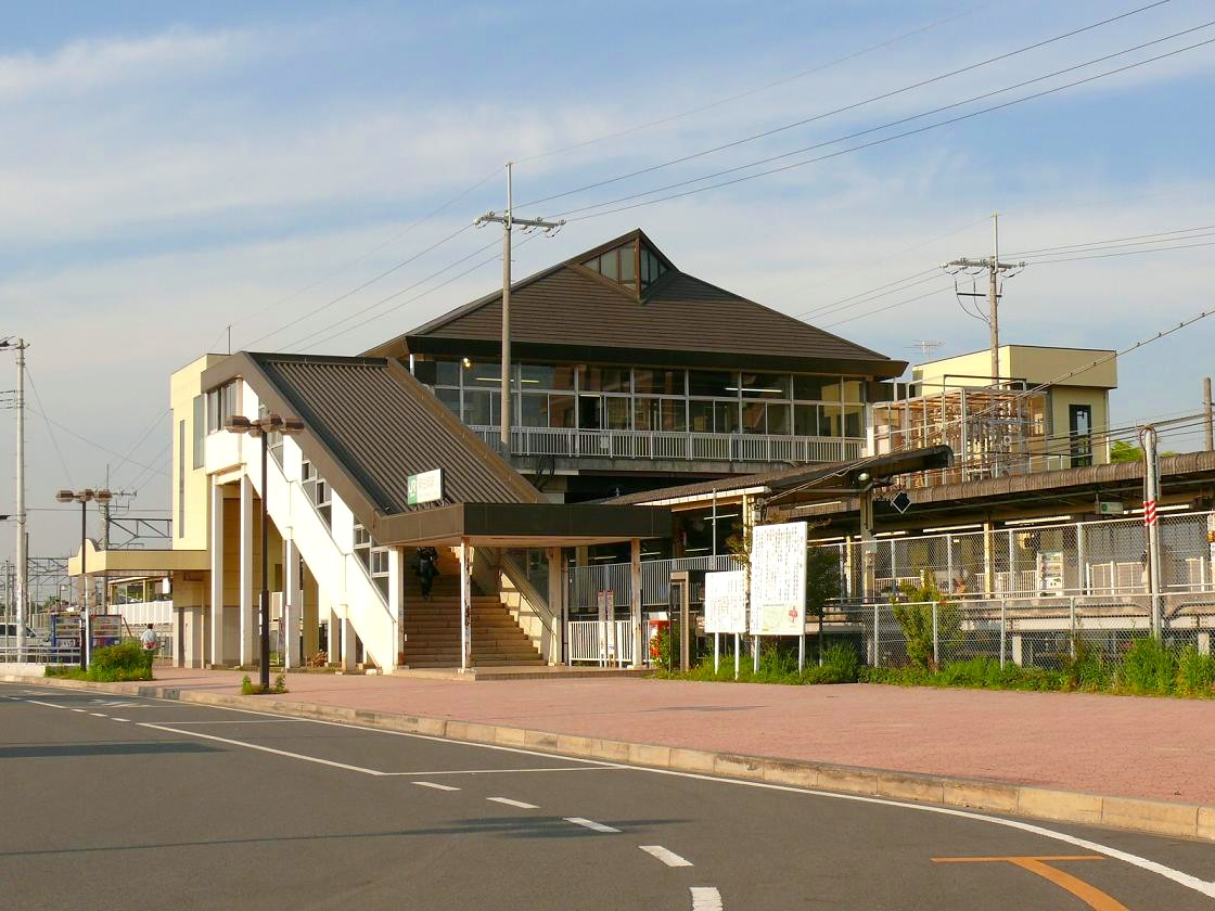 East Japan Railway Shin-Shiraoka Station Premises.